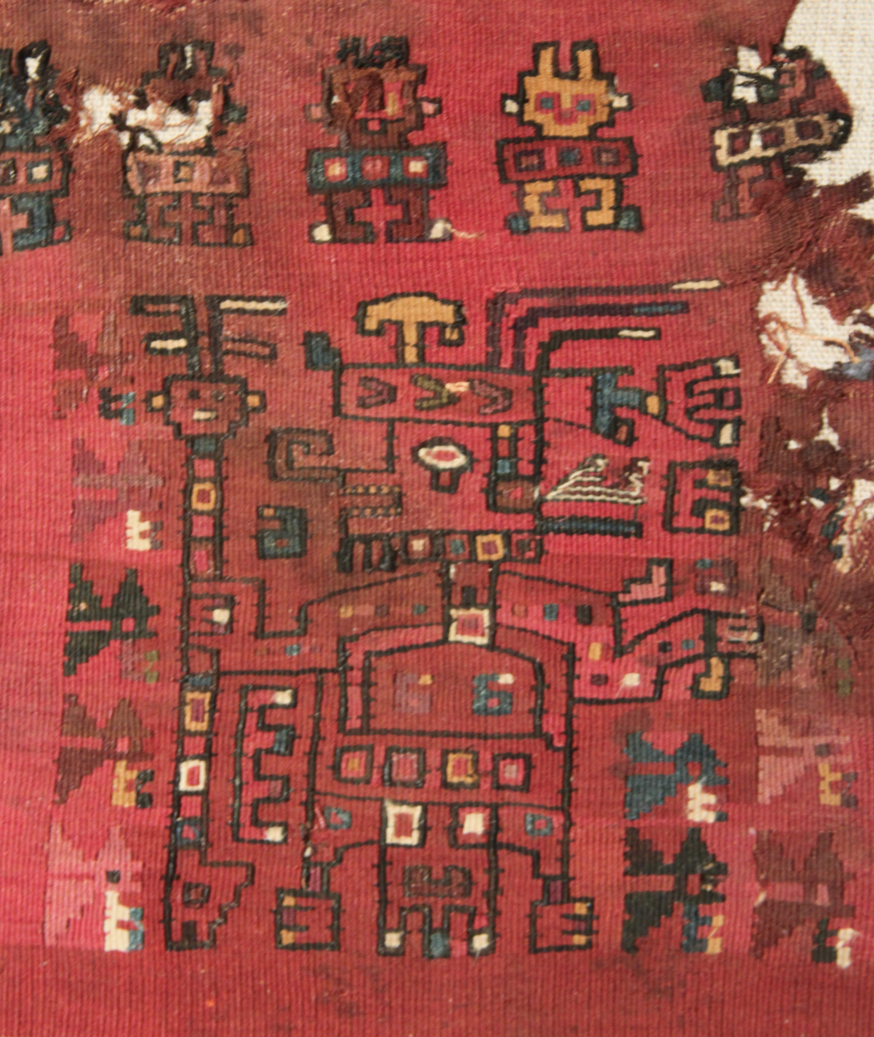 Moche tapestry (detail)